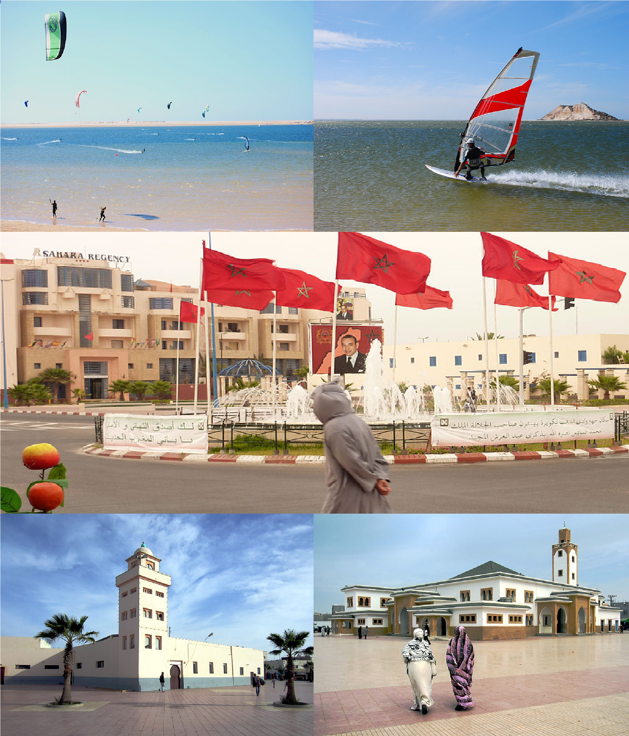 Dajla-ad-Dajla-Villa Cisneros Collage